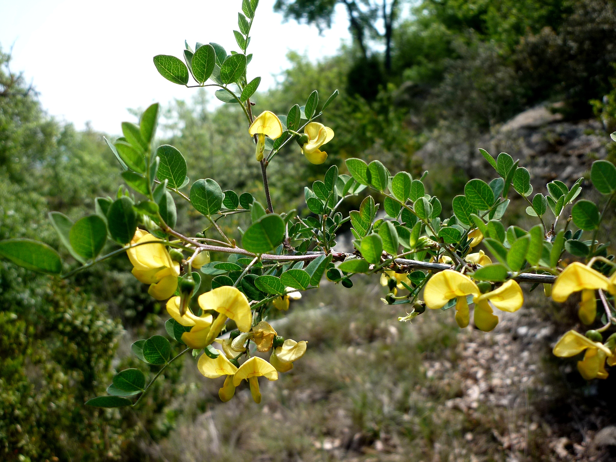 Colutea arborescens. In Torà (Segarra-Catalunya). To 590 m. altitude